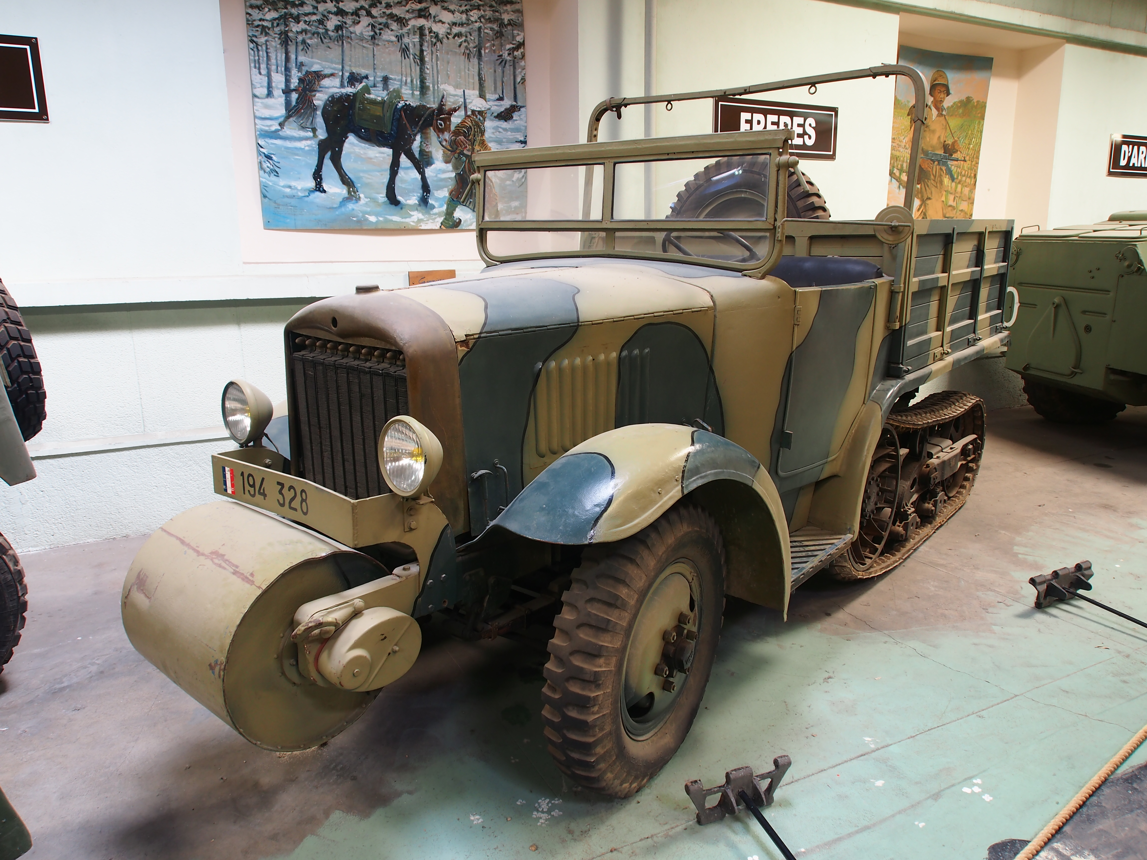 Photographed in the Musée des Blindés, France.